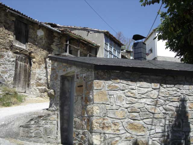 O Reboledo (Ourense)